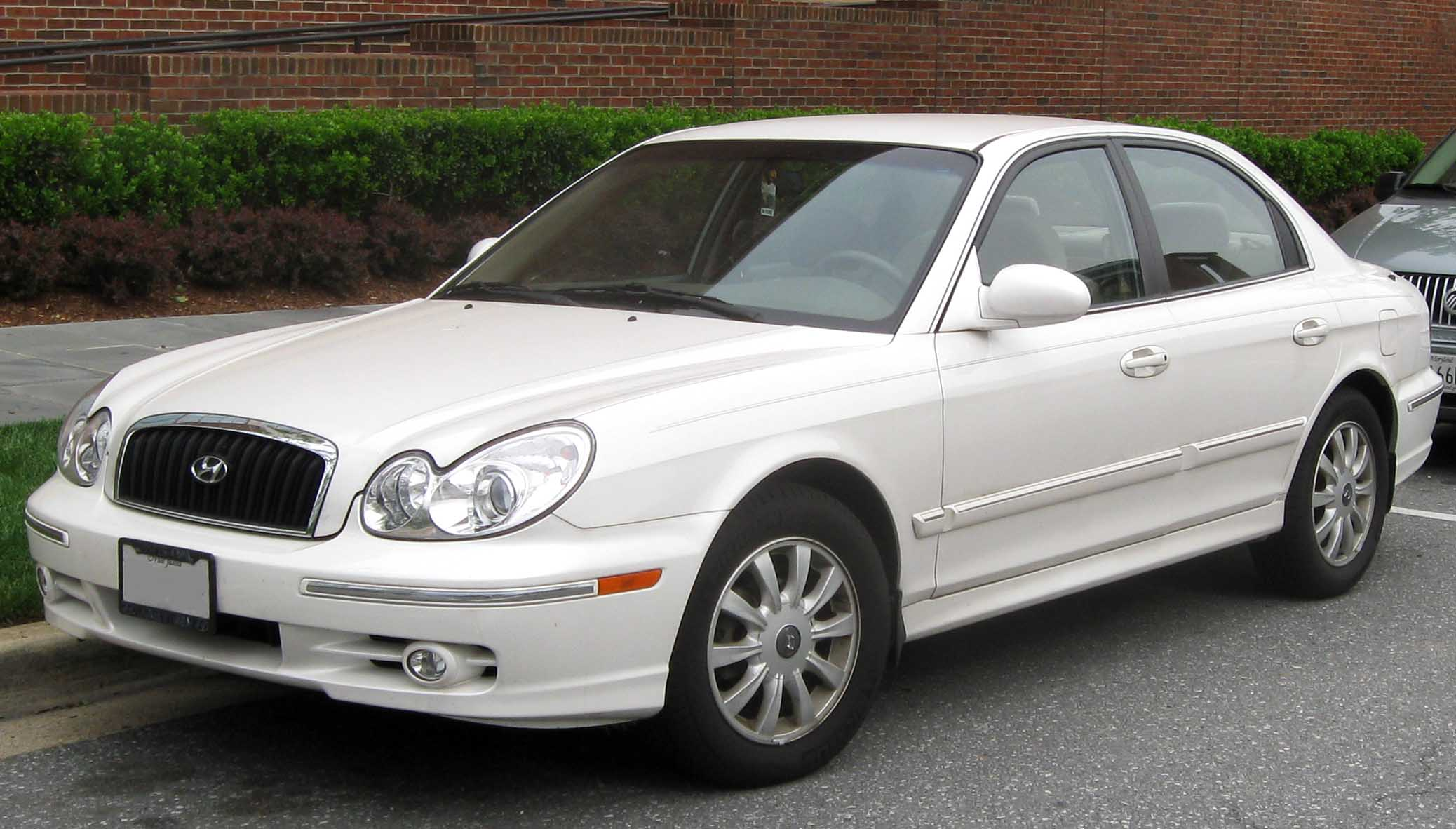 2002-2005 Hyundai Sonata photographed in College Park, Maryland, USA.